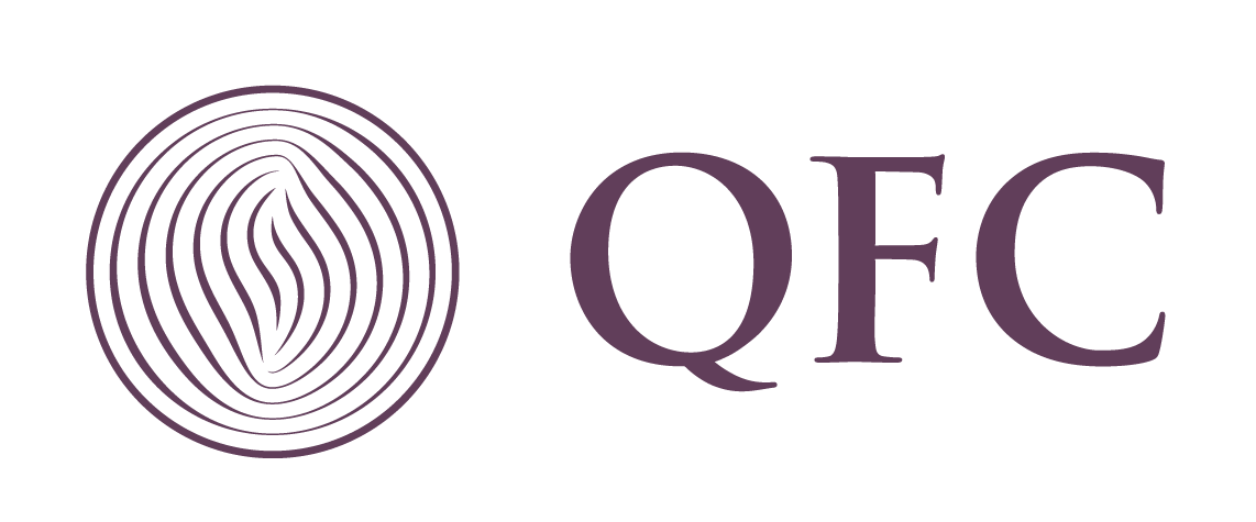 Logo of Qatar Financial Centre (QFC)